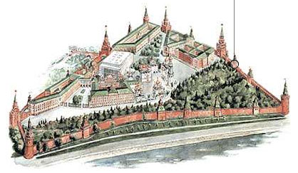 Overview map of the Moscow Kremlin. Location of Nabatnaya Tower marked.